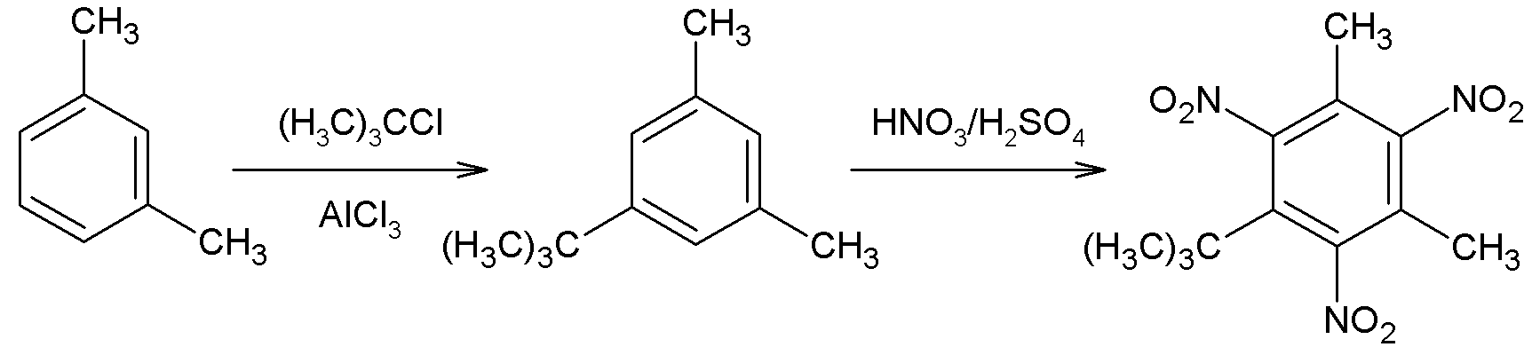 The preparation of musk xylene from meta-xylene. The first step is a Friedel–Crafts alkylation and the second is a nitration.